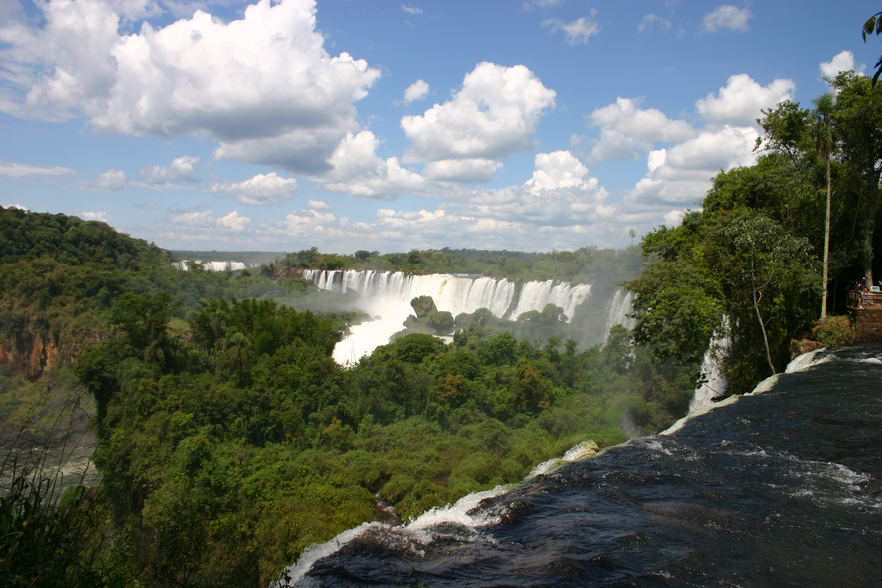 Iguacu Falls from the Argentine side. Photograph taken with a Canon EOS300D and Canon 55mm EF lens with Skylight 1B filter.